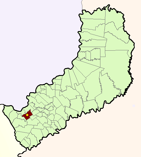 A map of Cerro Corá's municipio in Misiones province, Argentina. The big point is Cerro Corá town.